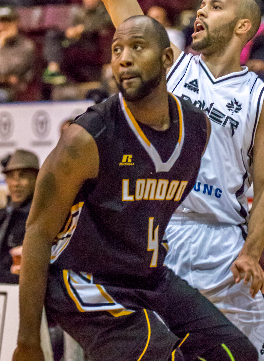 The Mississauga Power's Tyrell Vernon tries to get a shot past the London Lightning's Elvin Mims.